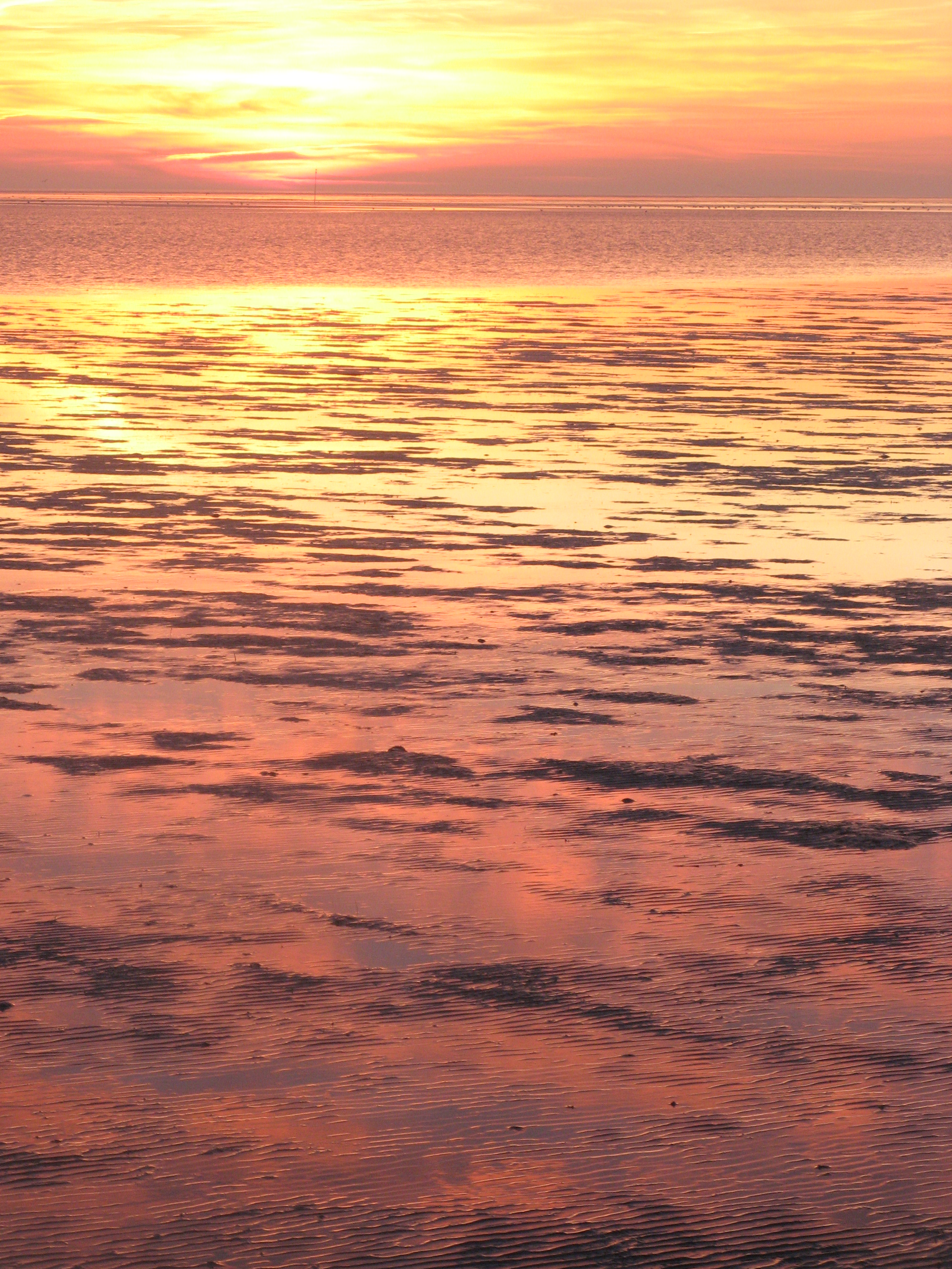 Vollerwiek, pink wadden sea